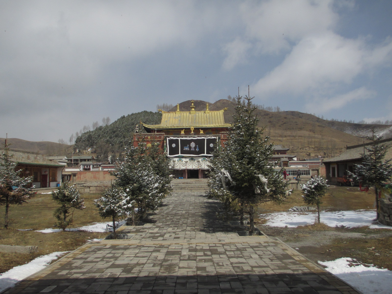 Chuzang monastery, Huzhu county